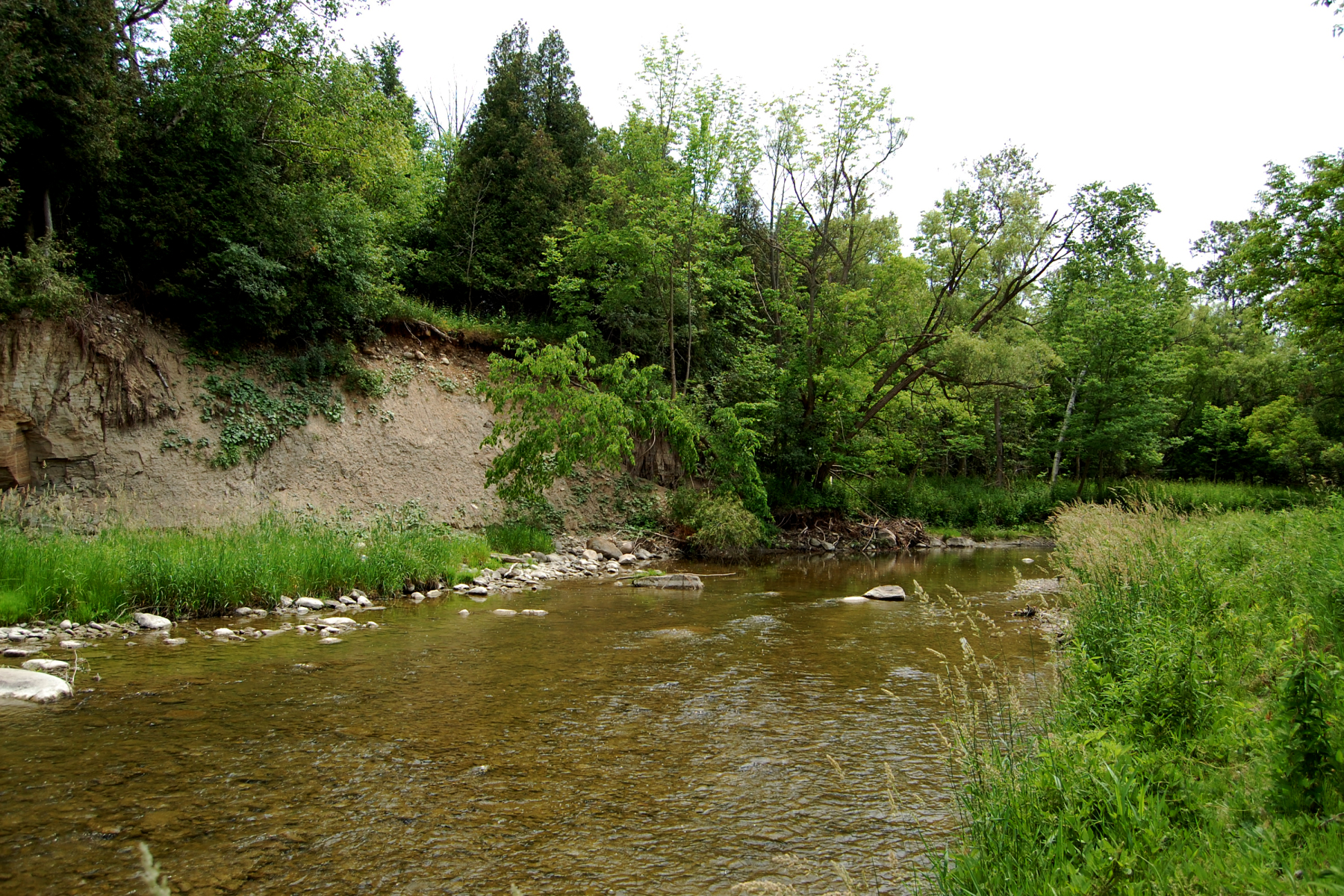 Shot in the Rouge River Conservation Area. Toronto, Canada.